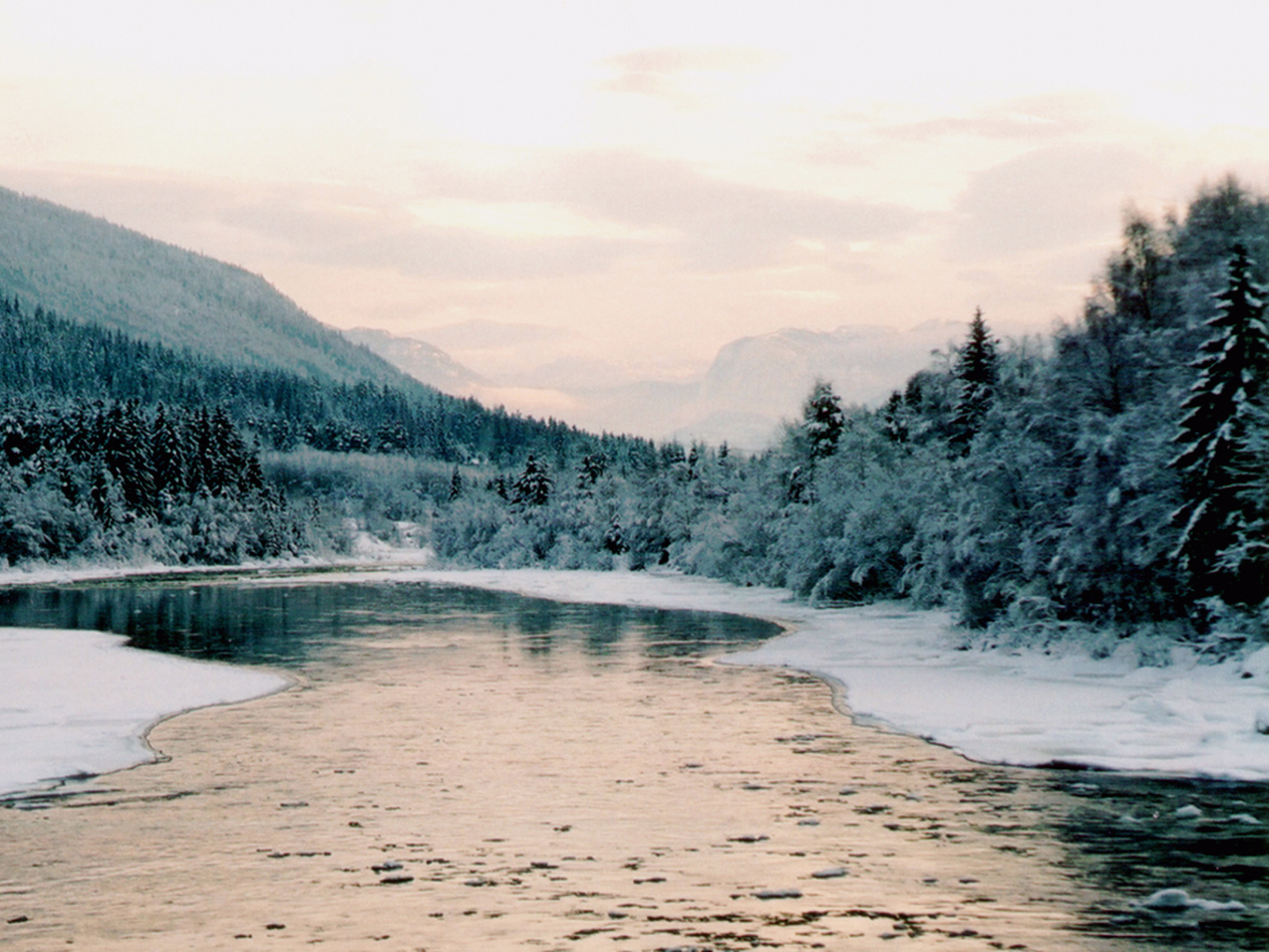 View down the river at Gardnos, central Norway.